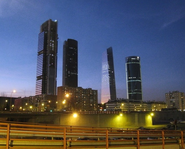 Cuatro Torres Business Area, Madrid (Spain).